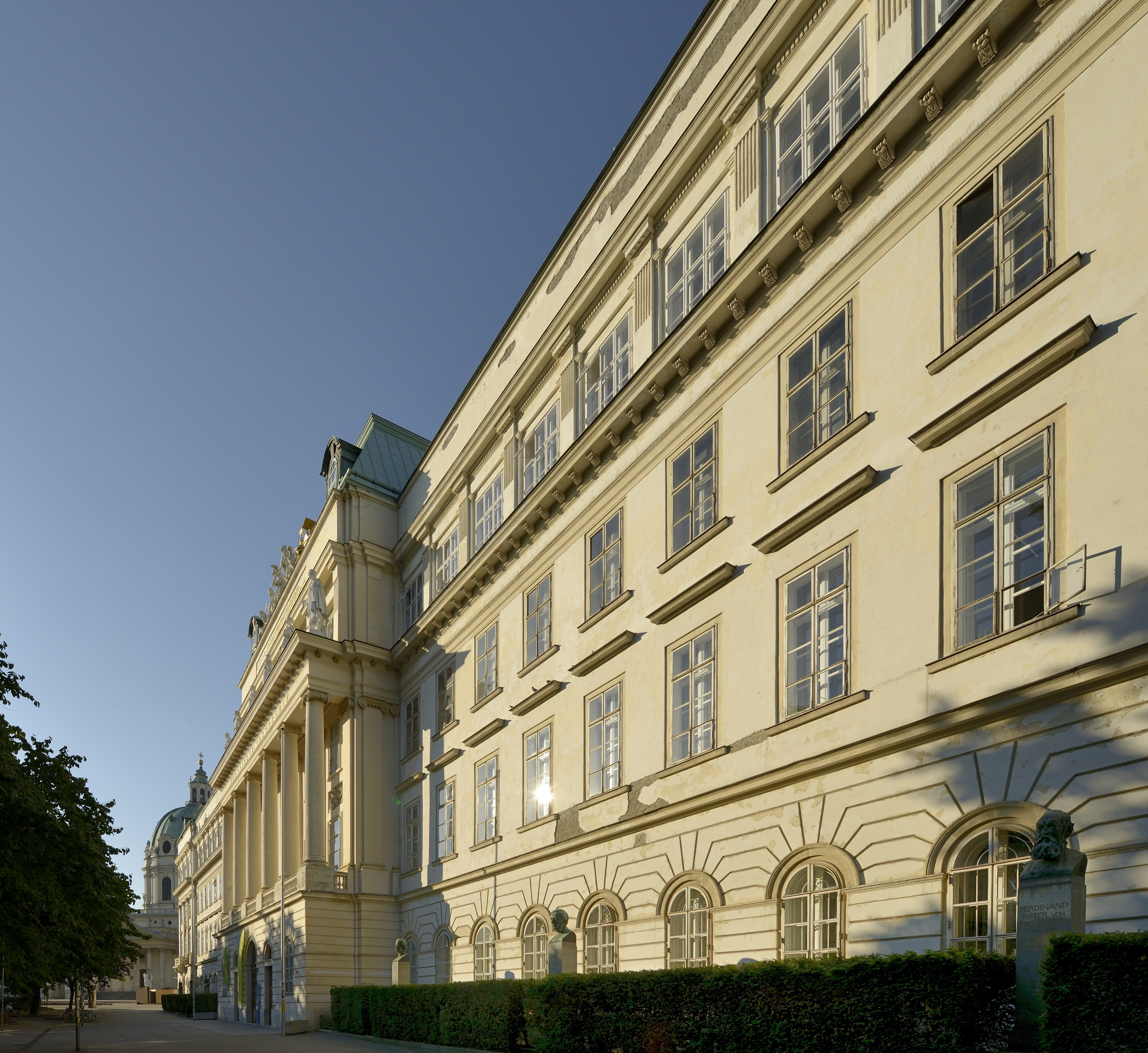 Main building of Vienna University of Technology, in the background Karlskirche (St. Charles's Church)